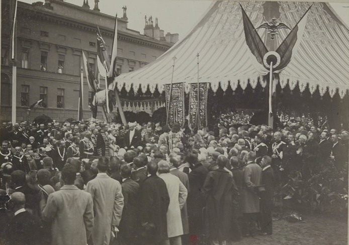 Séjour de Mr. Félix Faure, président de la République, en Russie - consécration du pont Troisky (1897)